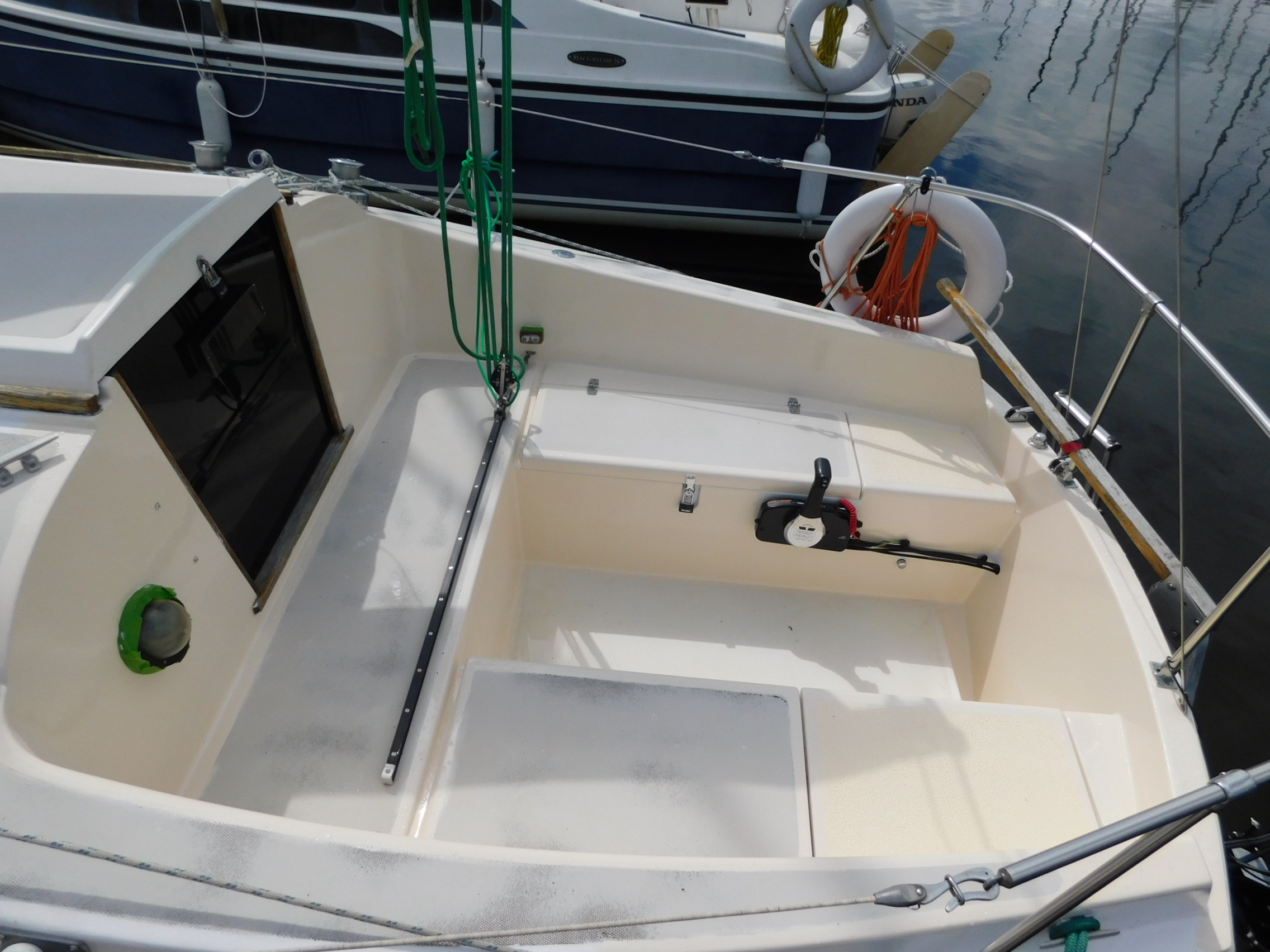 The cockpit of a Paceship PY 26 sailboat named Dalriada.